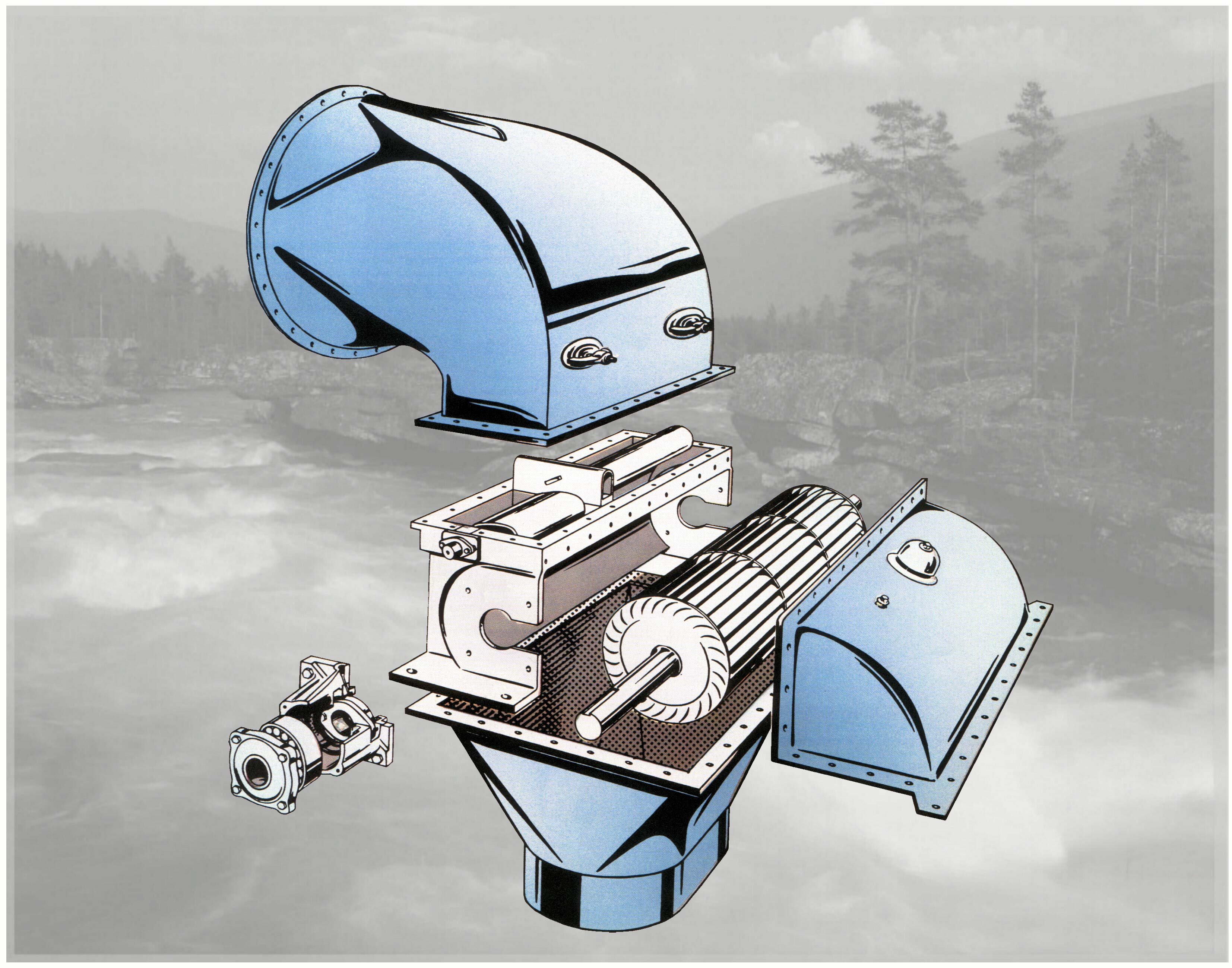 Ossberger turbine section from Ossberger GmbH + Co in Germany